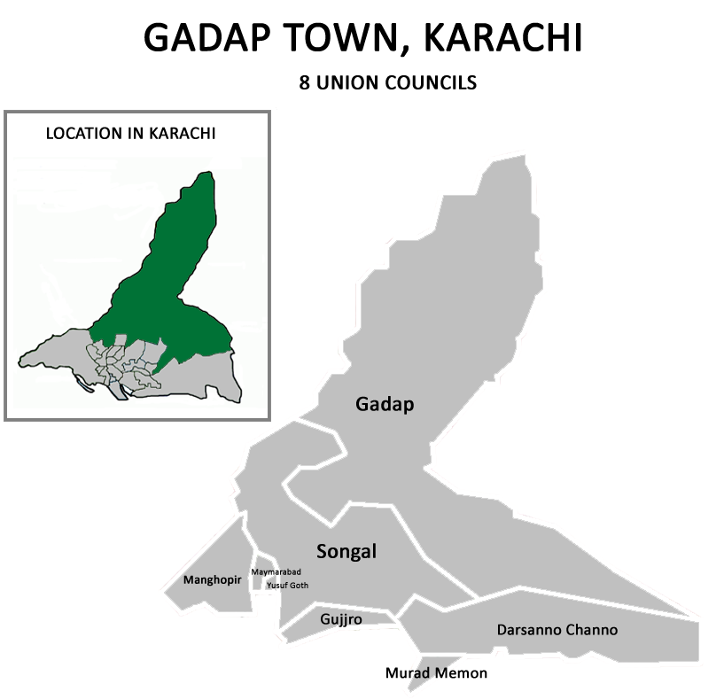 Union Councils of Gadap Town, Karachi.